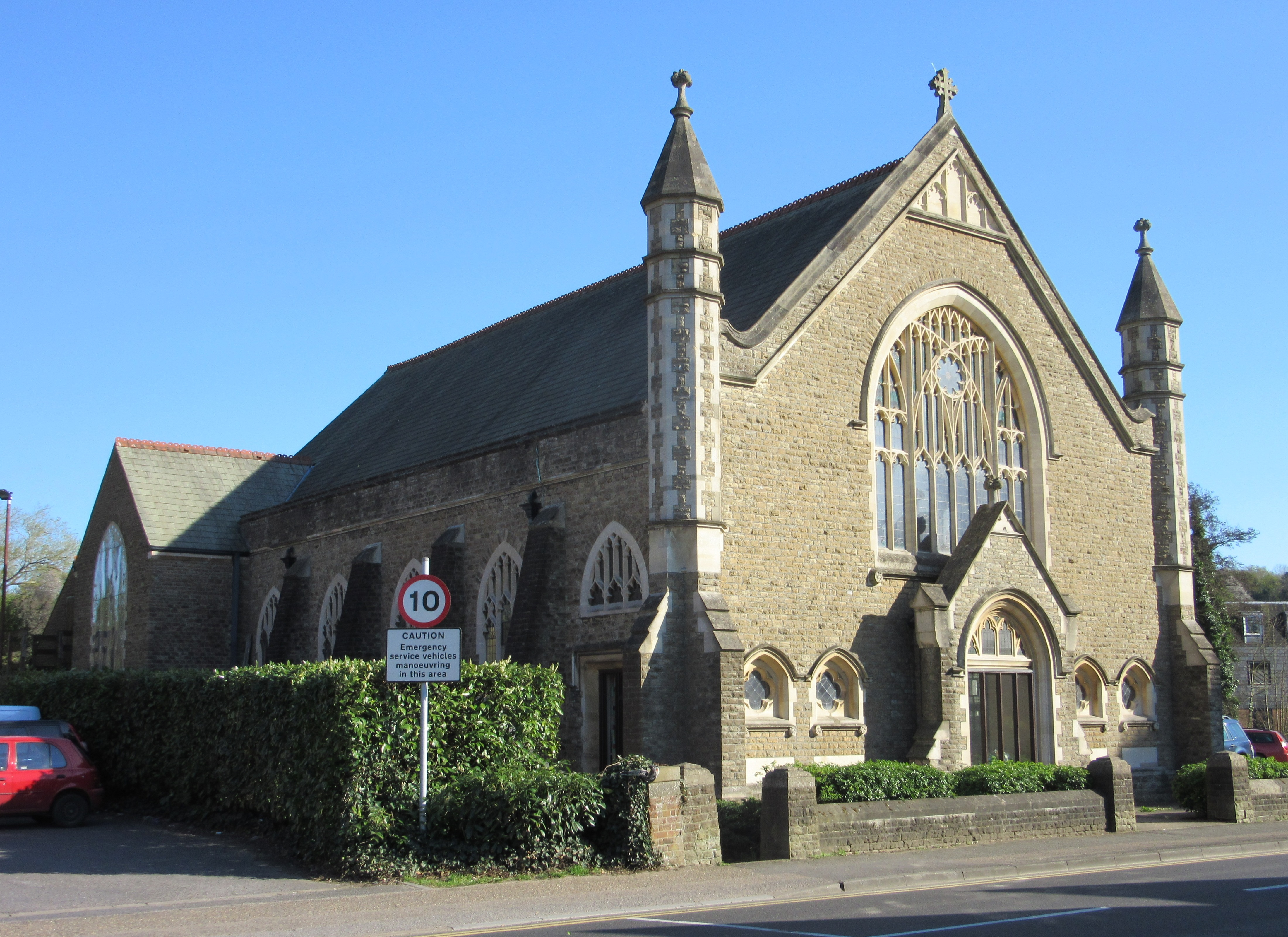 Godalming United Church, Bridge Road, Godalming, Borough of Waverley, Surrey, England. A joint Methodist and United Reformed church. It was originally the town's Methodist chapel.